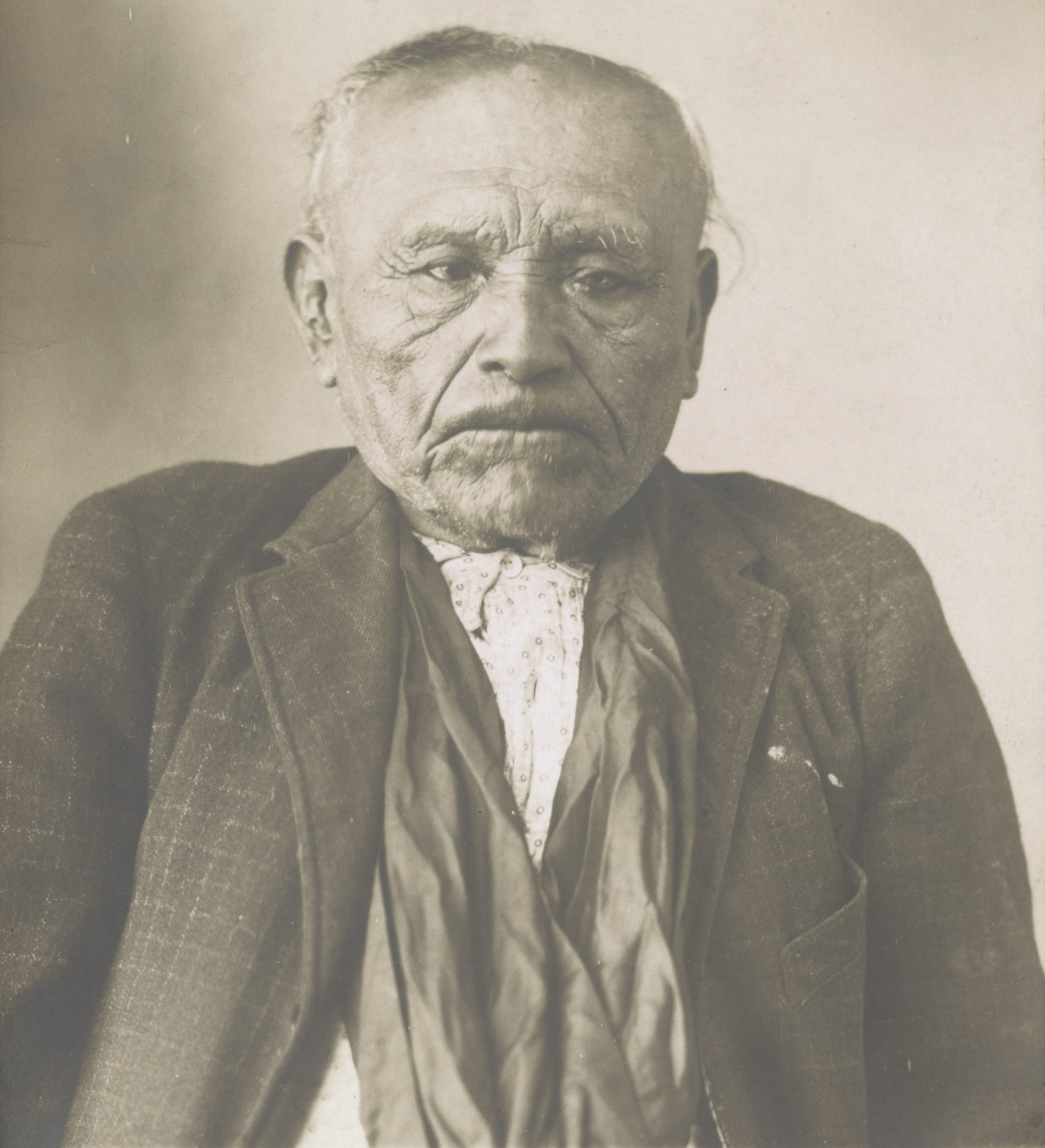 Title: "Dr. Joseph," chief medecine [i.e. medicine] man of the Swinomish Reservation / Photo by O.J. Wingren., La Conner, Wash. Abstract/medium: 1 photograph : gelatin silver print ; mount 14 x 9 cm (postcard format)